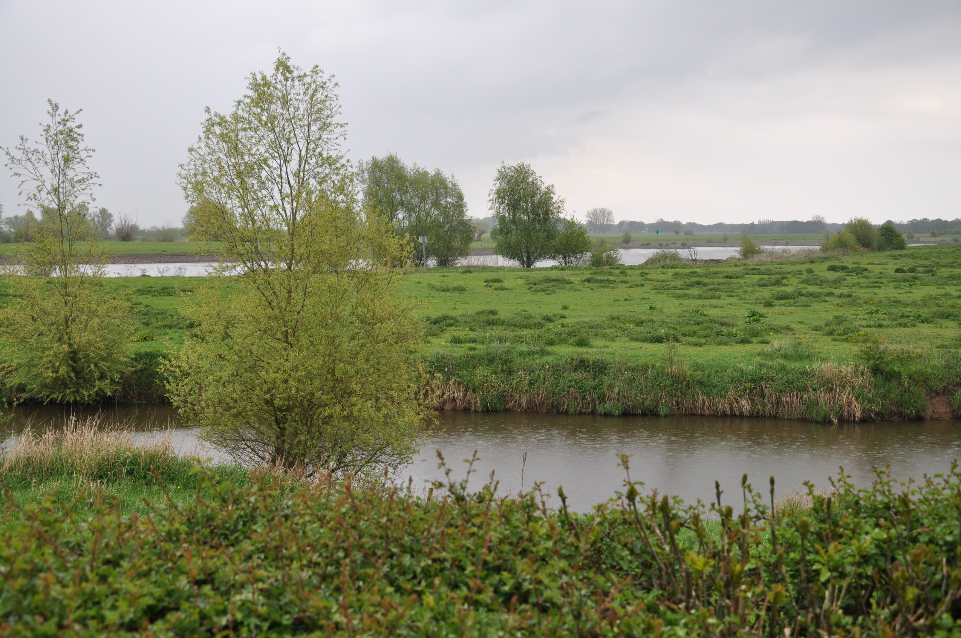 rain in the river IJssel